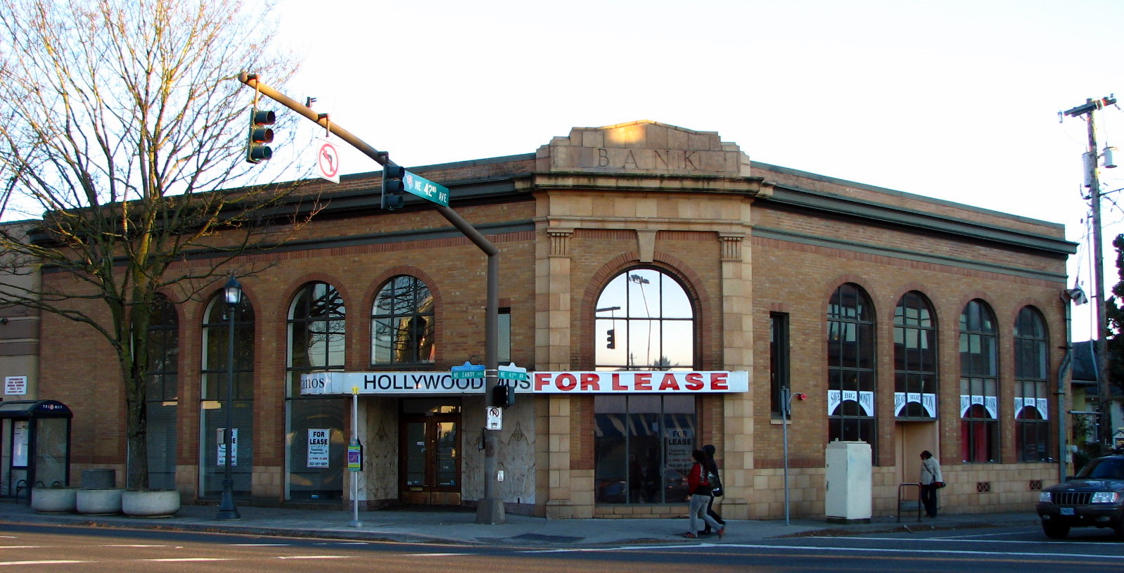 The historic Oregon State Bank Building (built 1927), located at 4200 Northeast Sandy Boulevard in Portland, Oregon, United States, is listed on the US National Register of Historic Places.